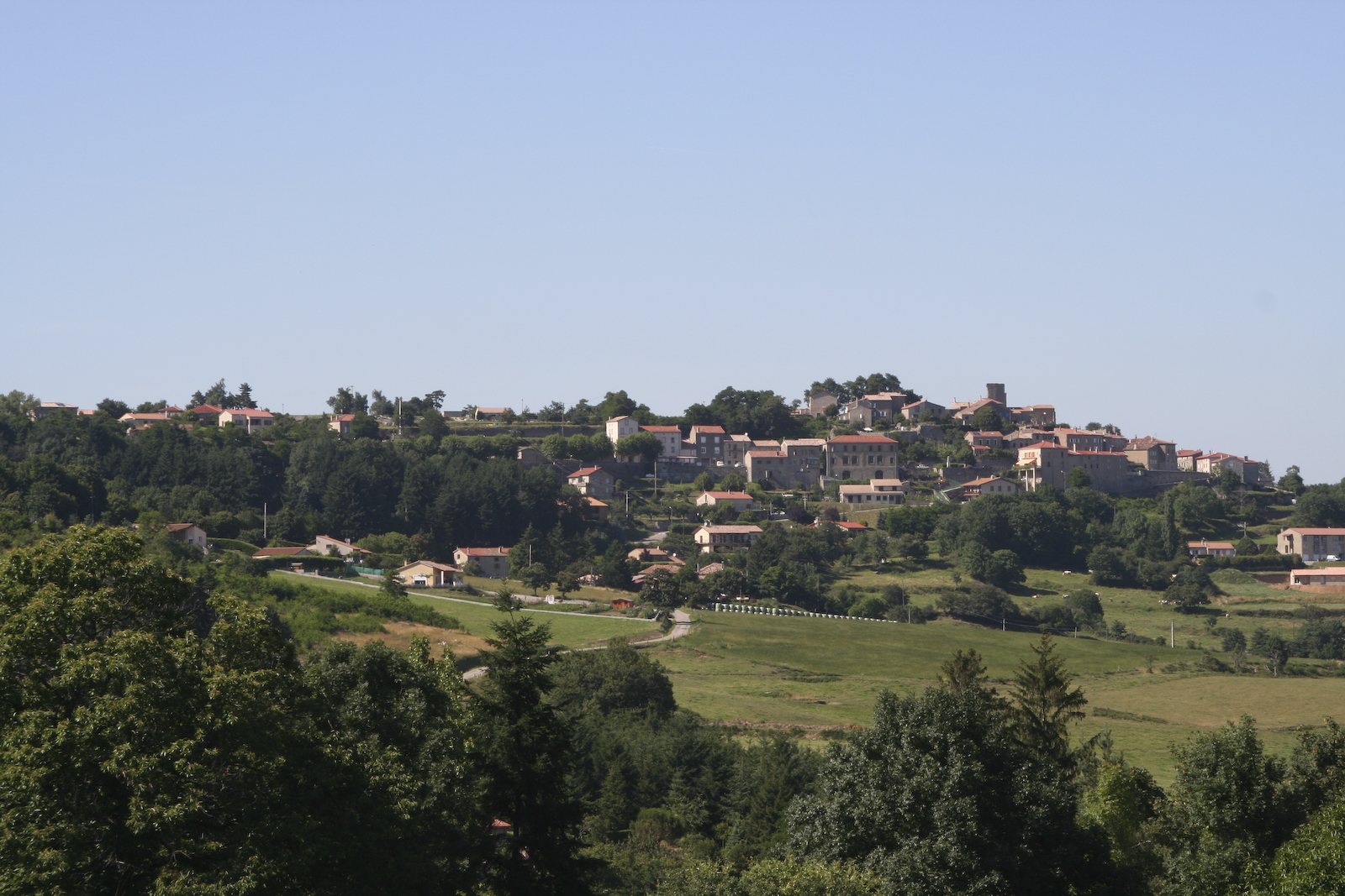 The village of Boffres